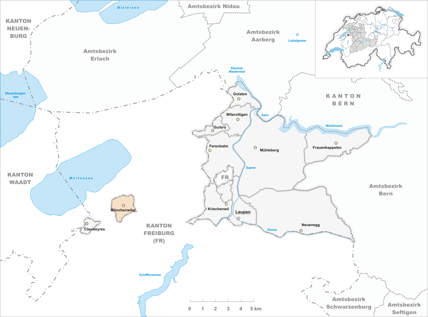 Municipality Münchenwiler